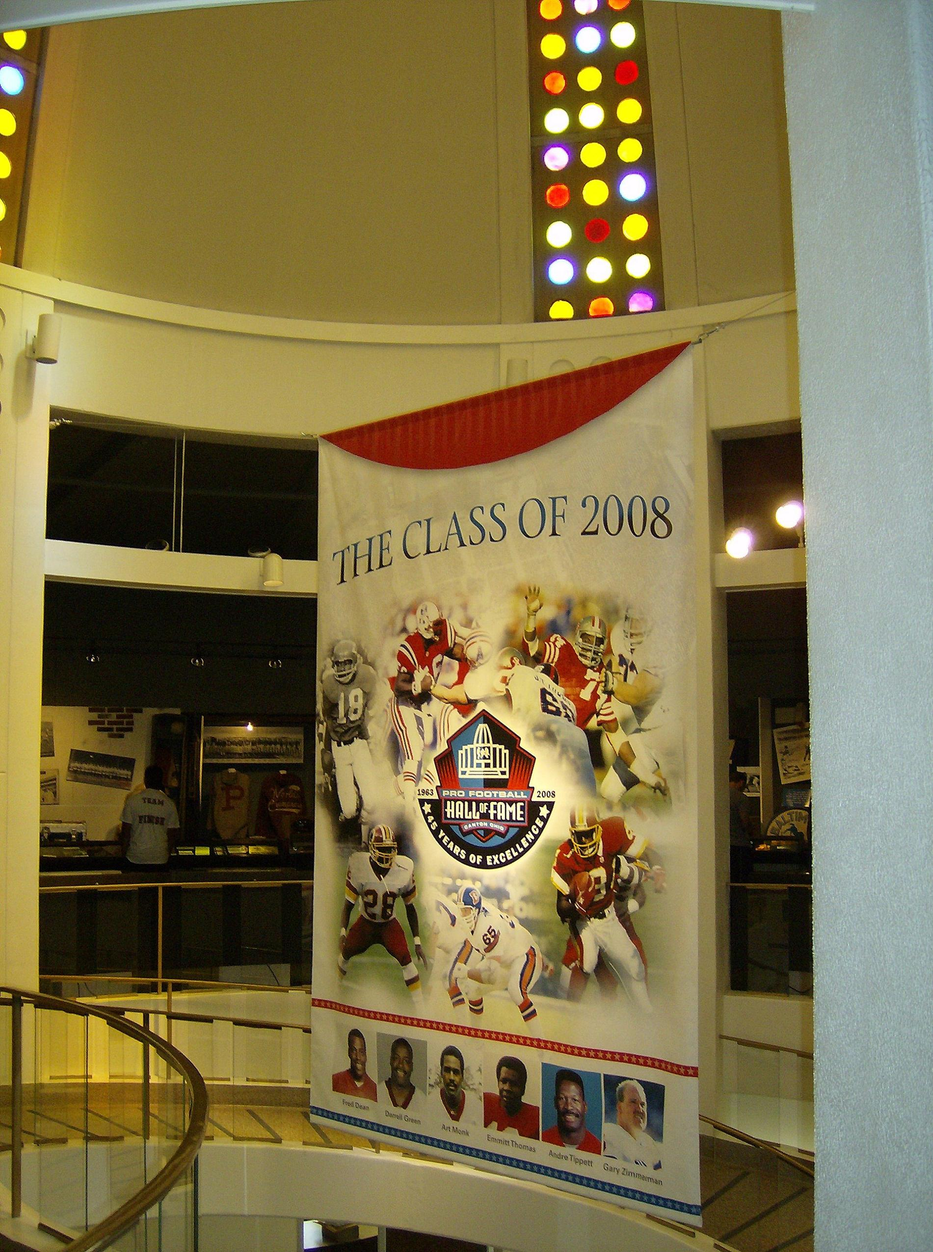 The well-known central dome type architecture from inside the Pro Football Hall of Fame.